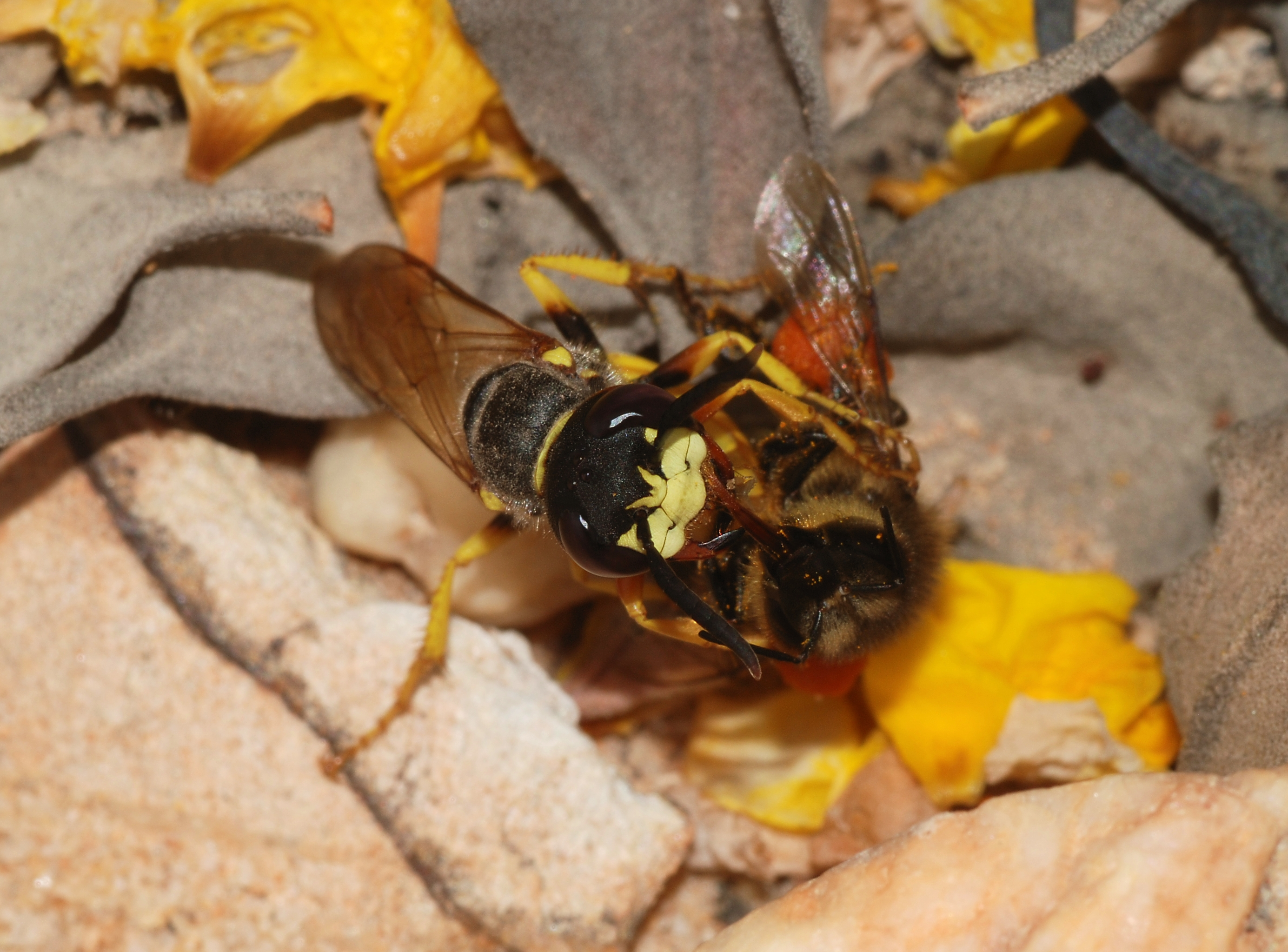 A Bee-killer wasp (Philanthus triangulum) paralysing a bee